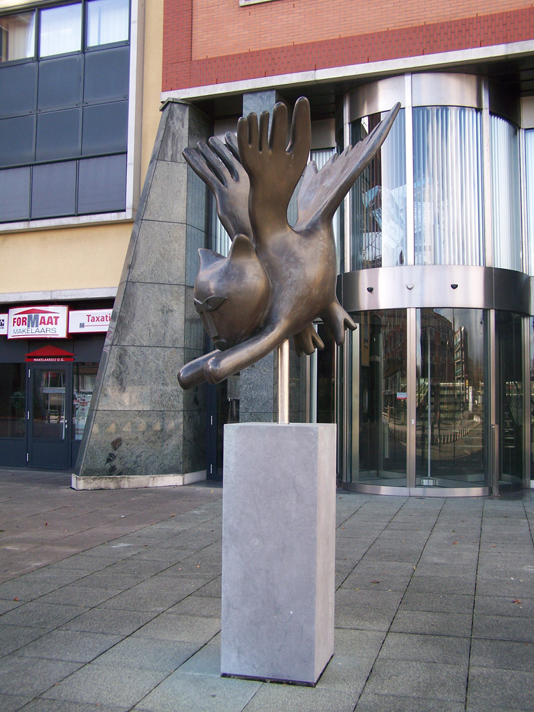 Statue Katvogel (Catbird) van Corneille (Guillaume Cornelis van Beverloo) placed in 2001 in Heerhugowaard near the station. A simular statue is placed in Amstelveen near the Cobra Museum.